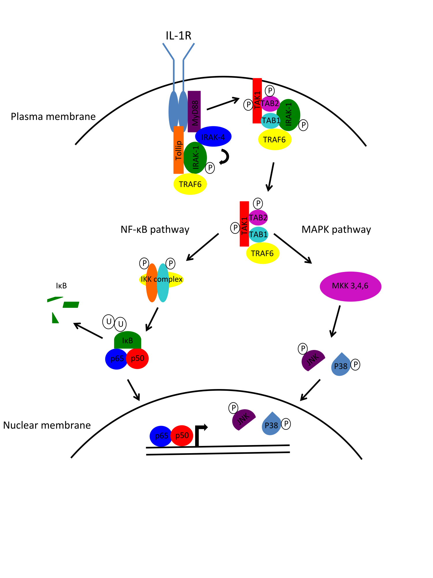 Overview of IL-1R Signaling Pathway-1